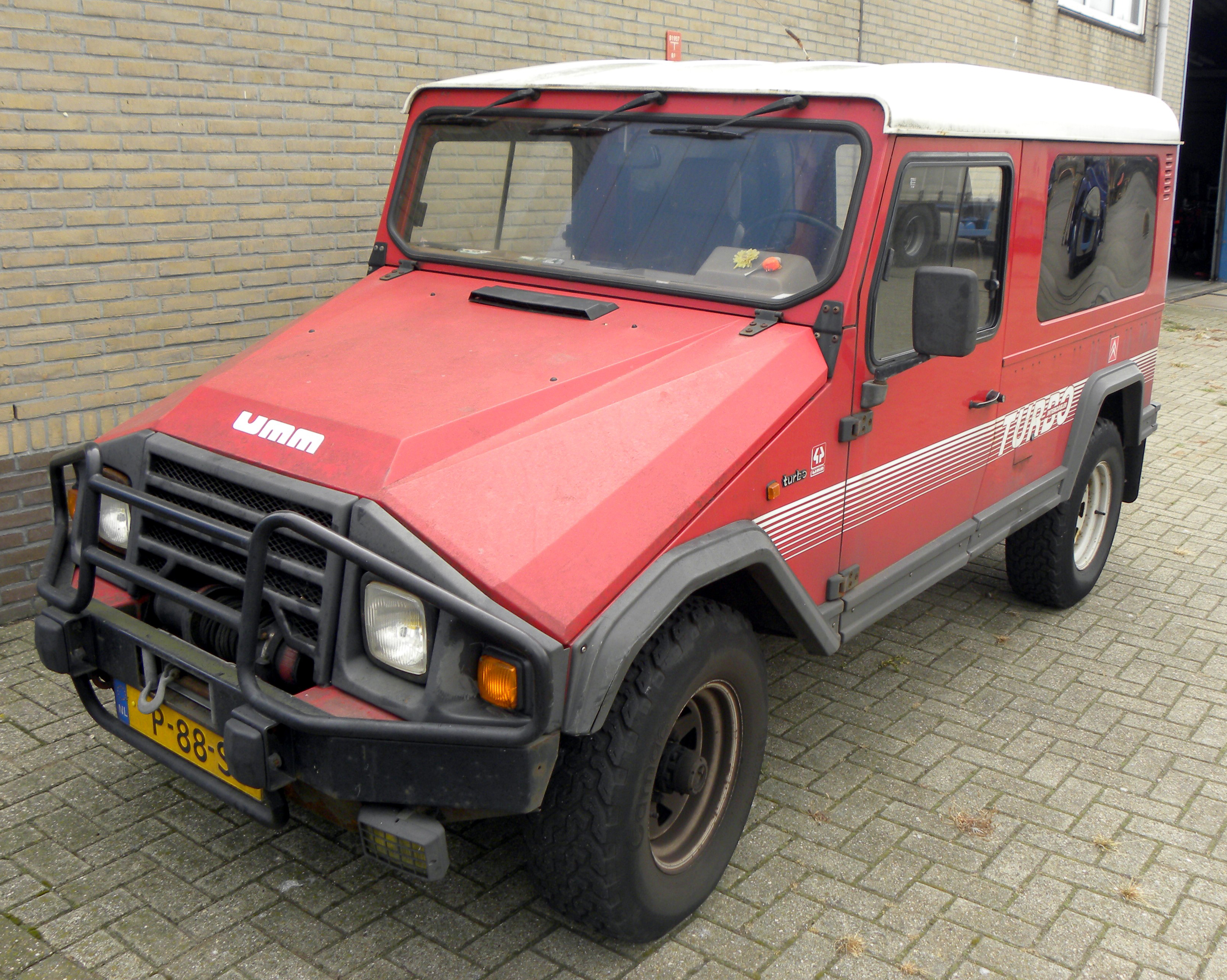 UMM Alter Turbodiesel 4 X 4 (Citroën engined), produced in Portugal by UMM (União Metalo-Mecânica)